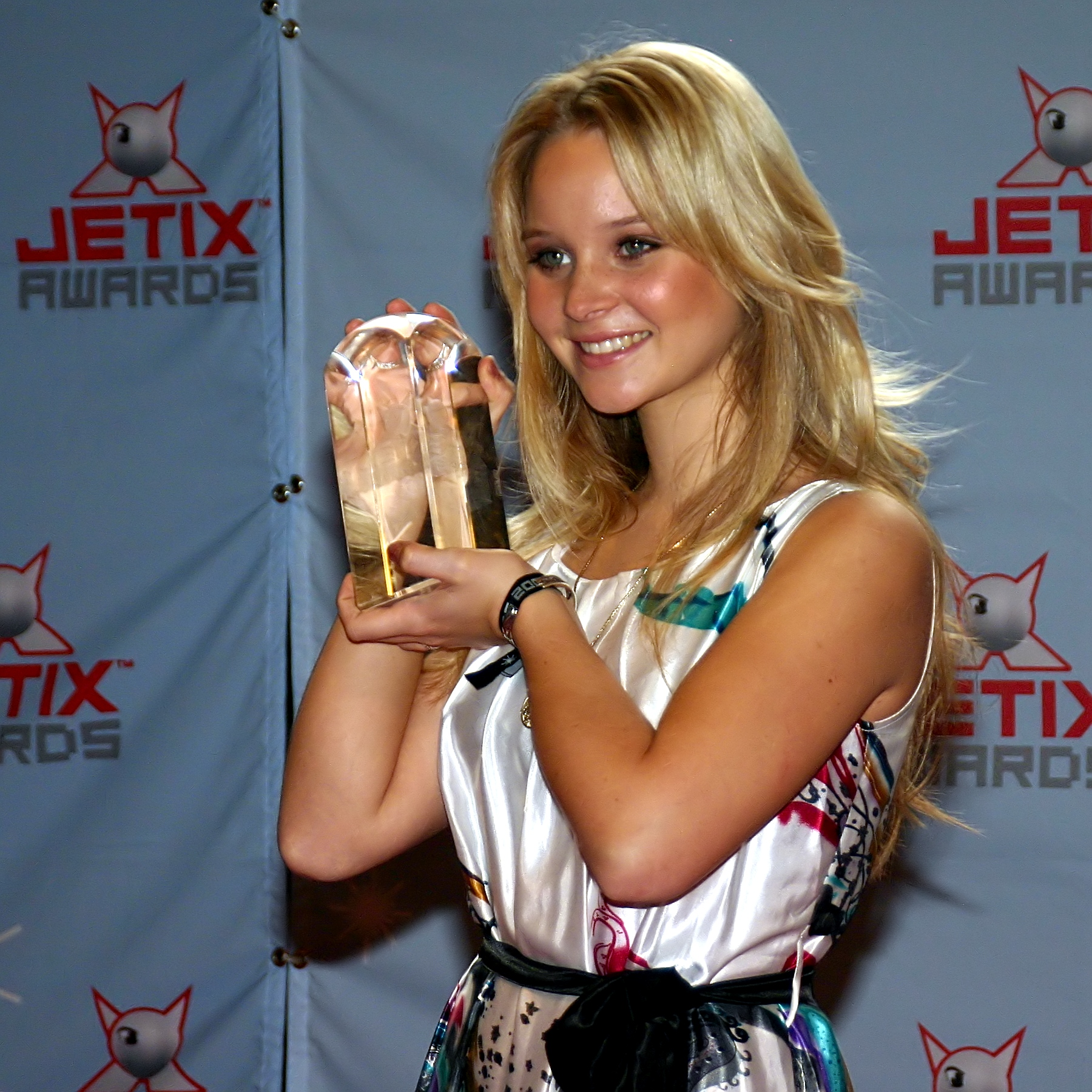 Sonja Gerhardt during the conferment of the JETIX Award at the youth fair "YOU", Berlin